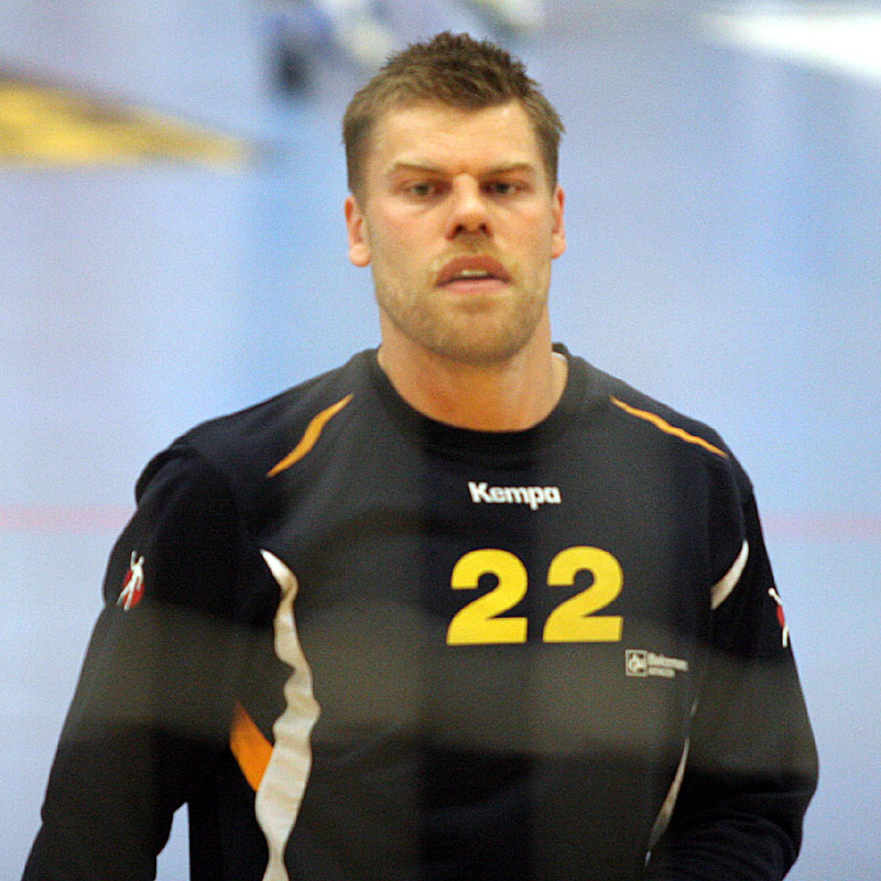 Robert Arrhenius, Swedisch handball player from BM Aragón, on April 26th, 2009 in Gummersbach (Eugen-Haas-Halle), prior the IHF Cup game between VfL Gummersbach and BM Aragón.